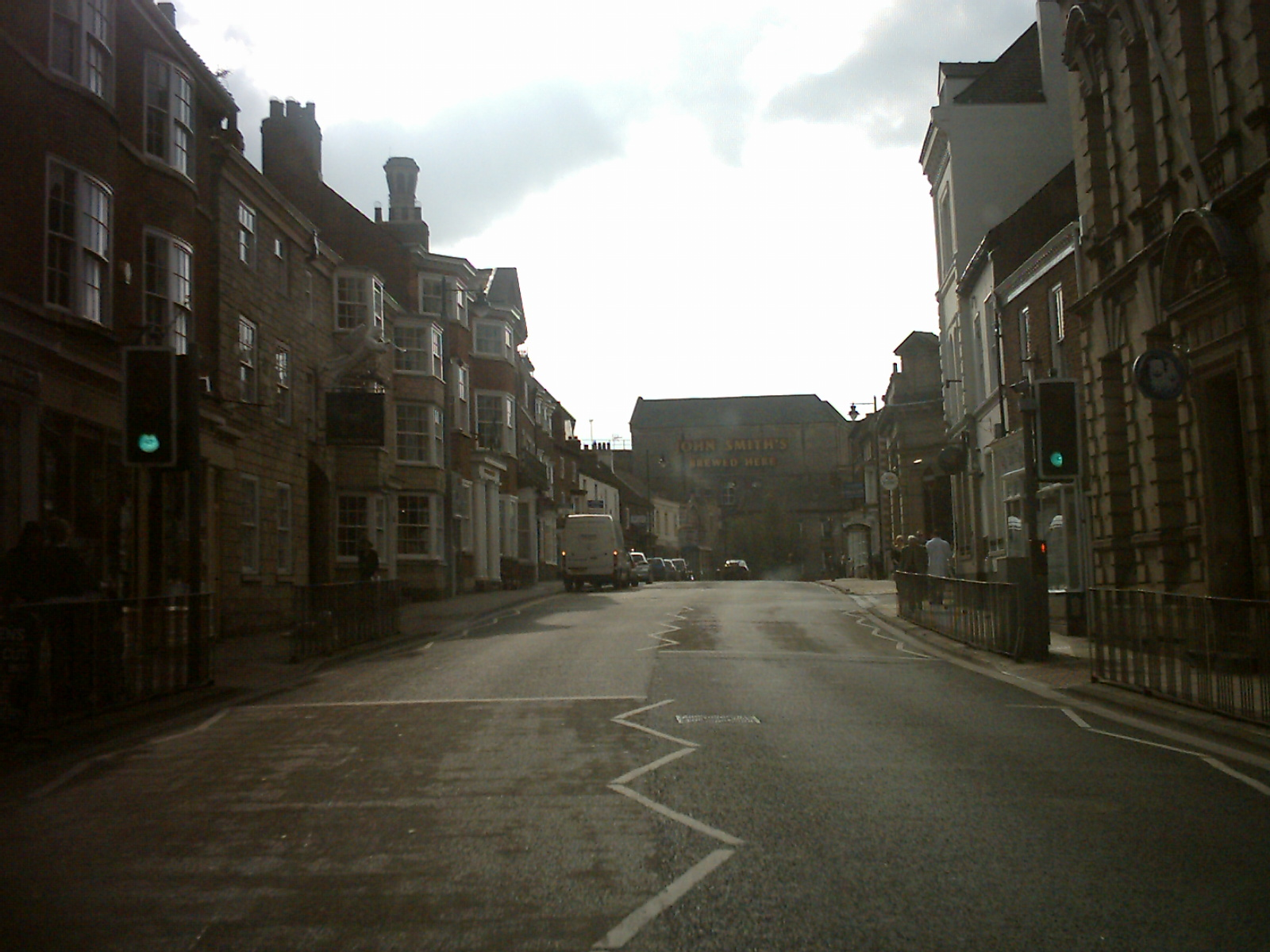 Looking from Bridge Street, up towards the High Street and John Smith's brewery in Tadcaster.